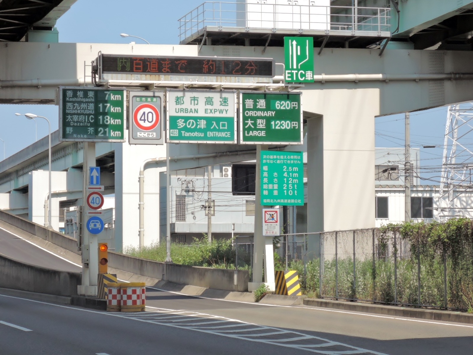 Tanotsu Interchange on the Fukuoka Expressway Kasuya Route